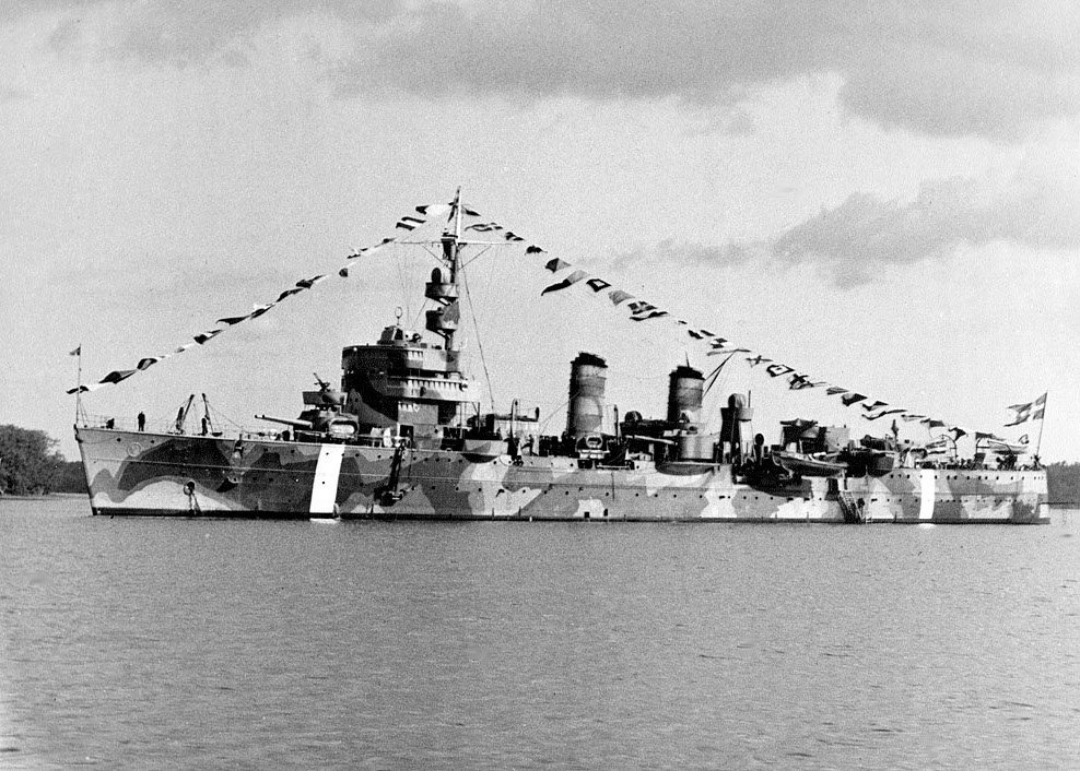 The Swedish cruiser HMS Fylgia.